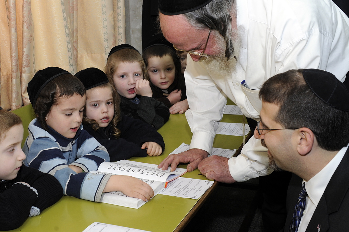 The Haredi “Consul” Rabbi Matityahu Cheshin invited Ambassador Shapiro and his wife, Ms. Julie Fisher, for an insightful tour of the ultra-Orthodox neighborhood of Meah She’arim, one of the oldest Jewish communities in Jerusalem. During the tour the Ambassador and his wife were able to witness the hustle and bustle of pre-Passover preparations. The tour included a rooftop view from the great Synagogue of Breslov, a walking tour of the Batei Ungarim (Hungarian houses), and a visit to a Passover lesson at a local elementary school. Ever wondered where Matzo comes from? At a local Matzo bakery, the Ambassador himself had a chance to hand grind some of the meal and to witness the thin dough shuffled in and out of the oven. The tour proceeded to the famous Challah bakery of Lendner, where the Ambassador and Ms. Fisher plucked challah out of the oven to discover that they spelled out “U.S.A.” We concluded the tour at the great synagogue of Belz, a centerpiece of the Belzer Hasidim community, which can seat 6,000 in its main sanctuary.